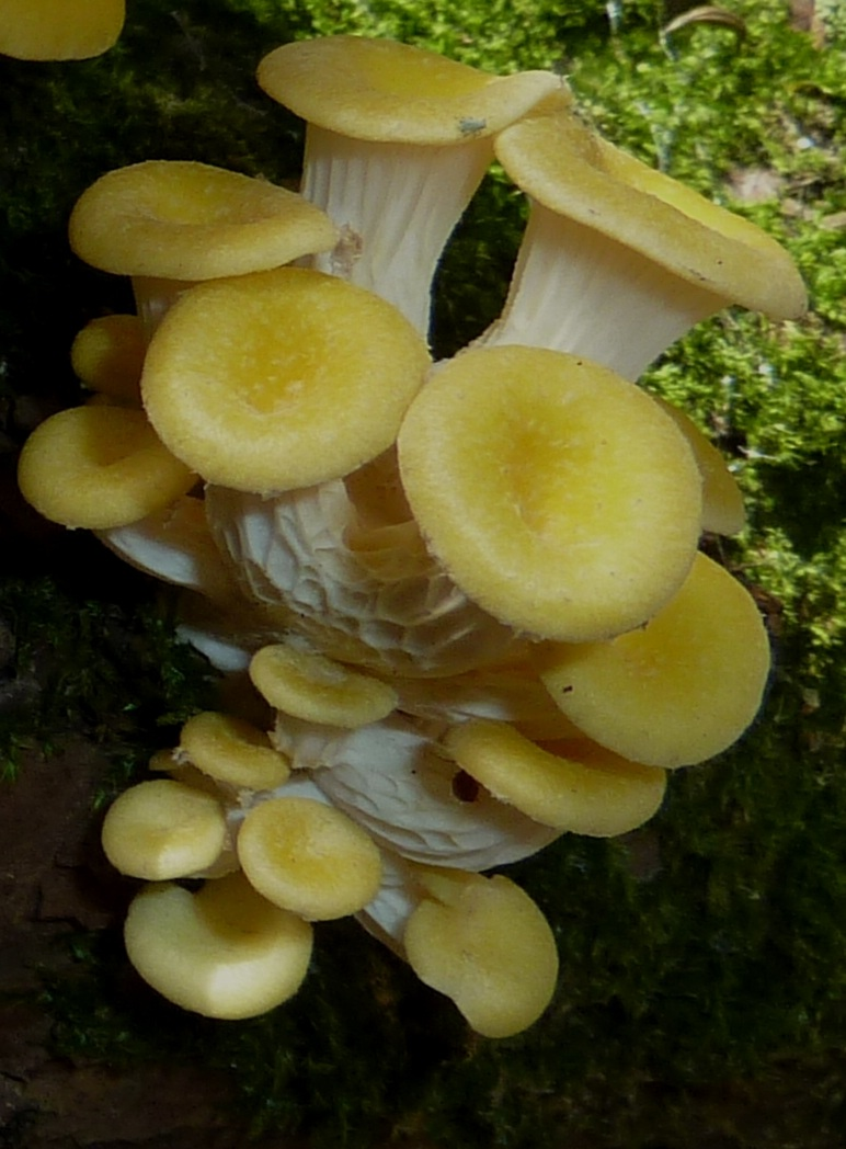 fungi